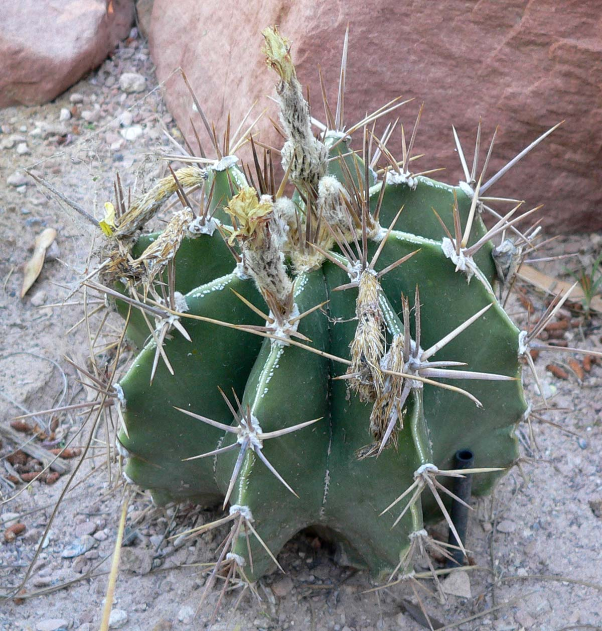 Photo of Astrophytum ornatum at the Springs Preserve garden in Las Vegas, Nevada